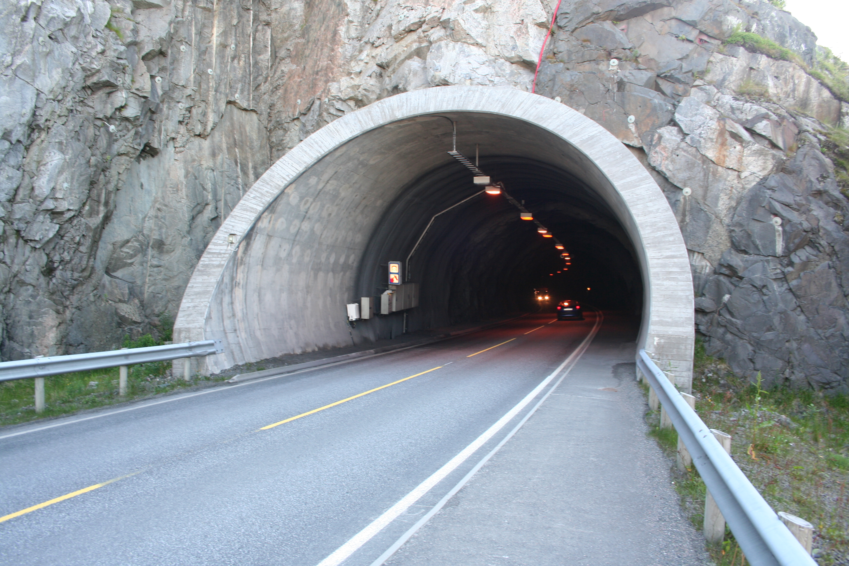 The east portal of the subsea Sløverfjord Tunnel in Norway